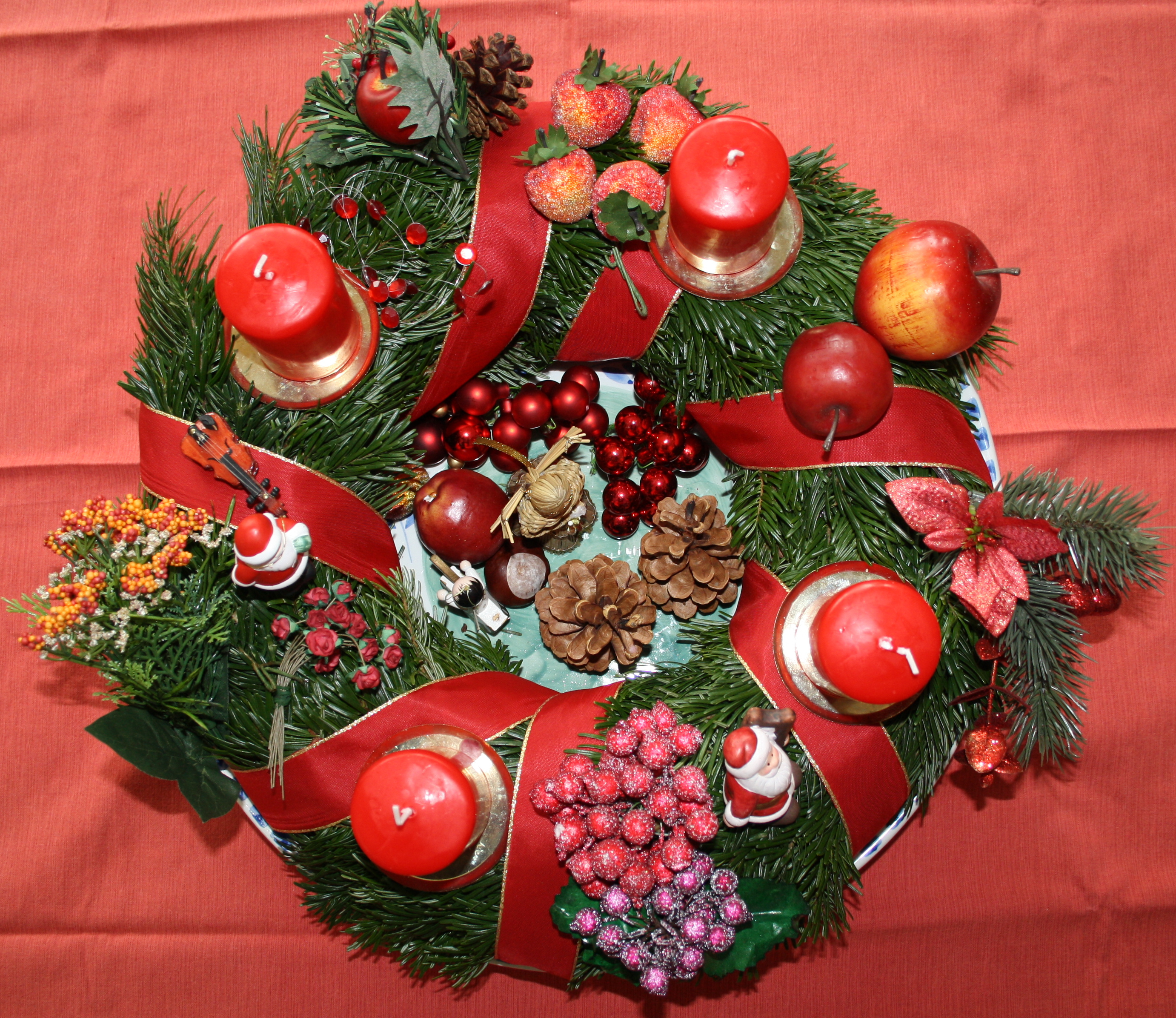 Advent wreath